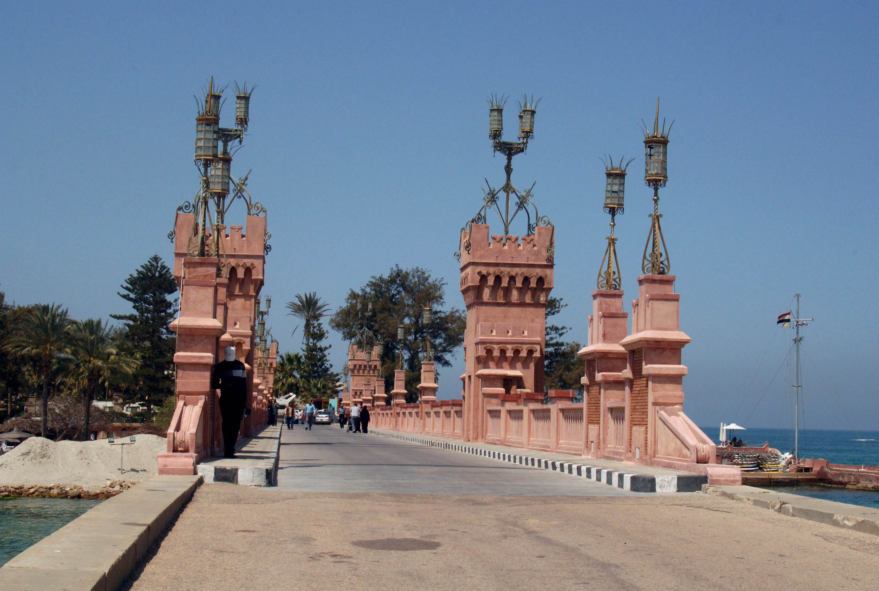 VICTORIAN BRIDGE WITHIN THE MONTAZA GARDENS